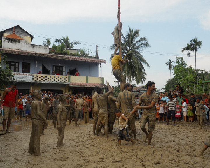 A local festival celebrated in eastern Nepal in August.